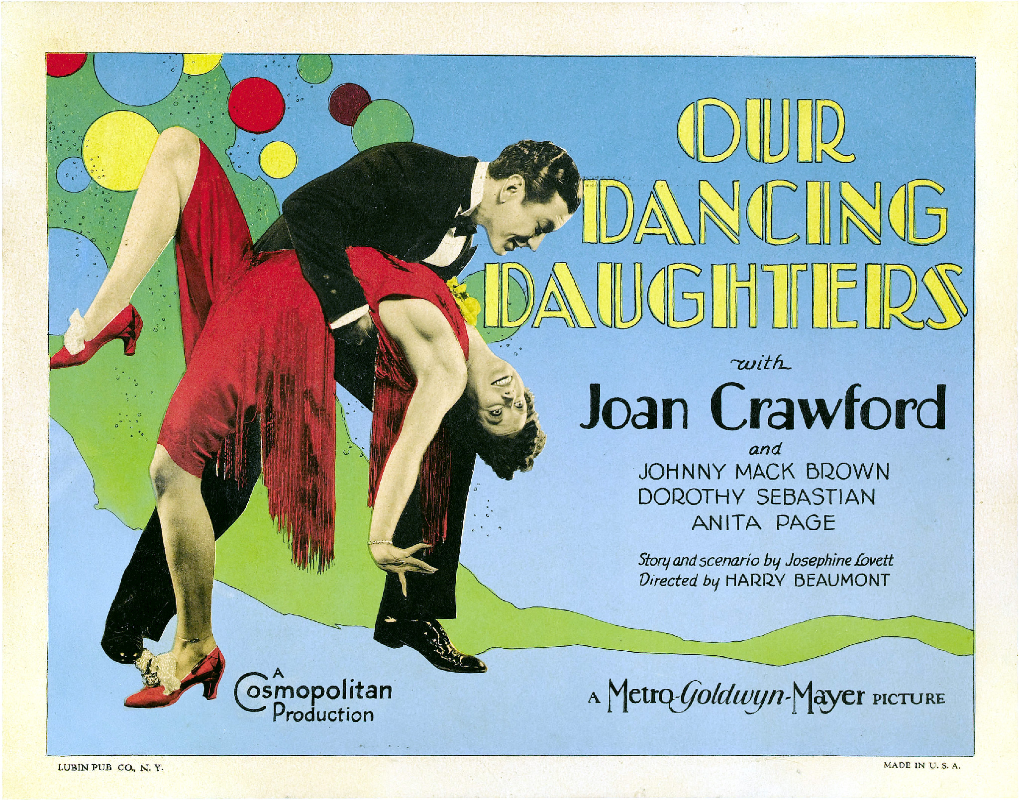 Lobby card for the American drama film Our Dancing Daughters (1928). The item has no copyright markings on it as can be seen in the links above. At bottom left is Lubin Pub. Co. NY-they printed the poster. At bottom right is Made in USA.